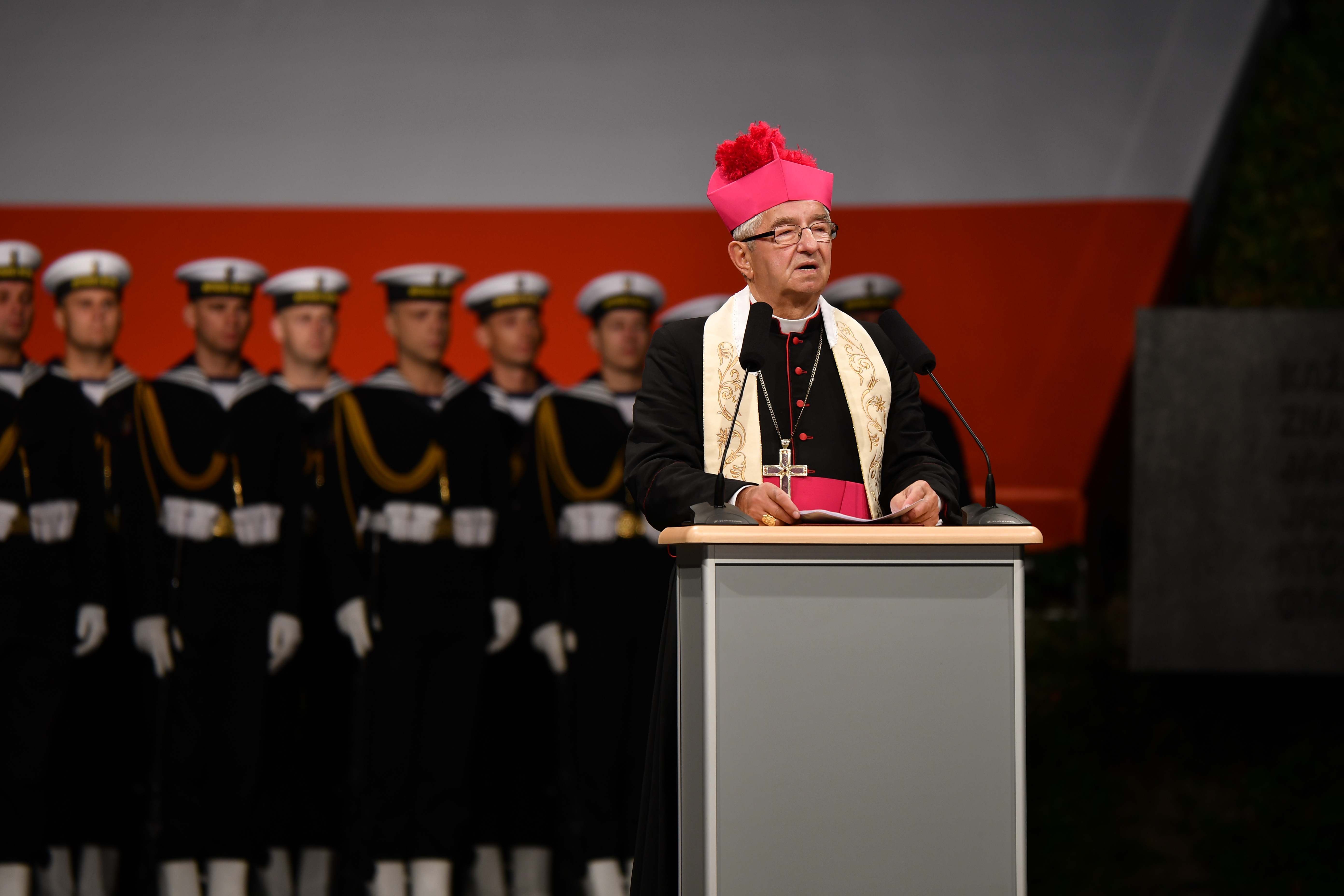 Westerplatte. Poland. Celebration of the 79th anniversary of the outbreak of World War II with the participation of the Marshal of the Sejm. On September 1, 1939, Nazi Germany invaded Poland. World War II began. On September 17, 1939, Soviet Russia attacked Poland from the east. Ribbentrop - Molotov Pact of August 23, 1939 with a secret annex. Hitler's Germany and Stalin's Russia, two dictatorial states invaded Poland. The fourth partition of Poland took place, between Hitler's Nazi Germany and Stalin's Soviet Russia.